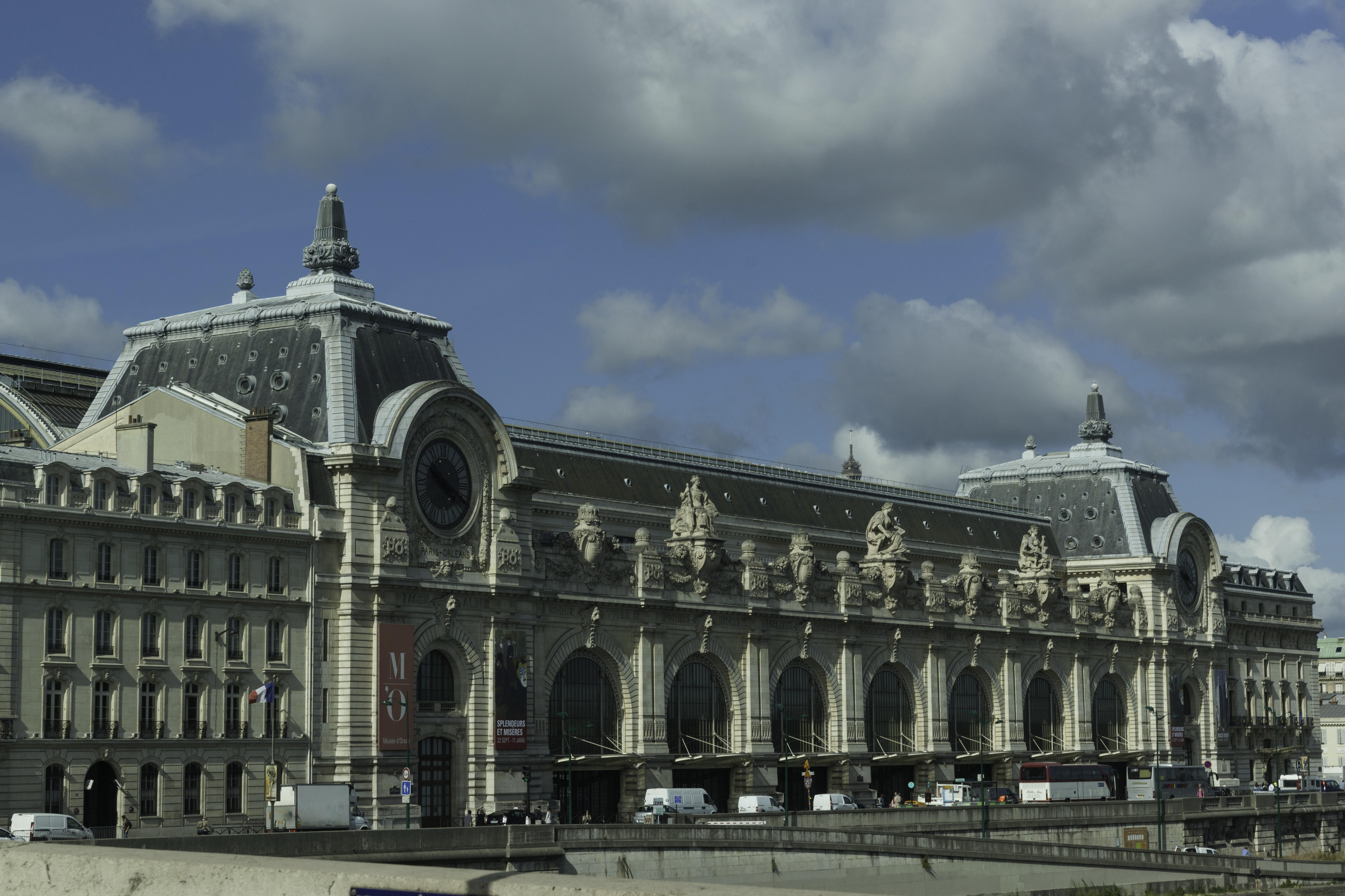 North facade of the Musée d'Orsay, Paris.